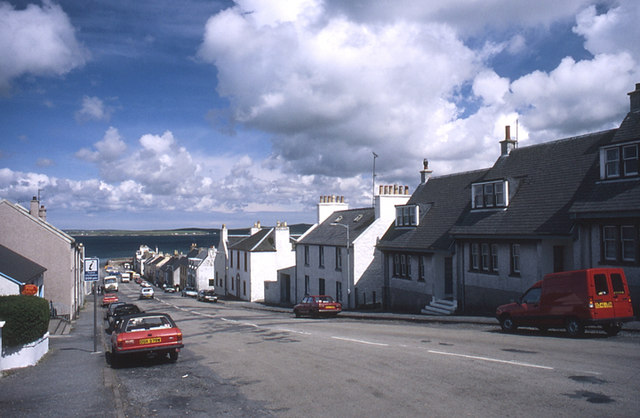 Bowmore, Islay